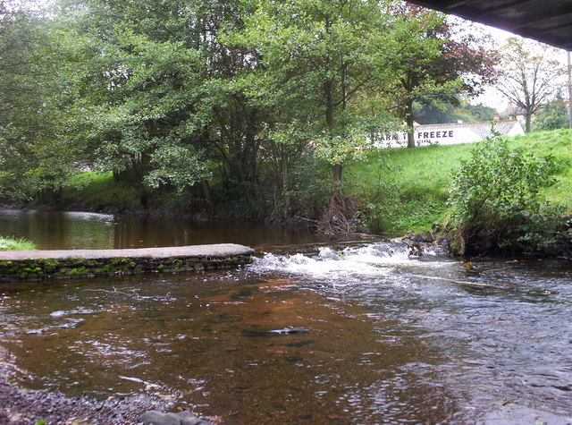 Wooler Water The river to the east of Wooler.